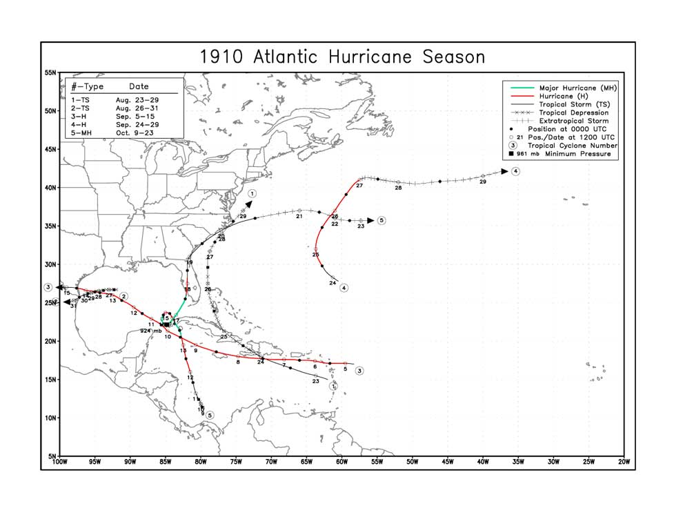 Season summary provided by NOAA of the 1910 Atlantic hurricane season.